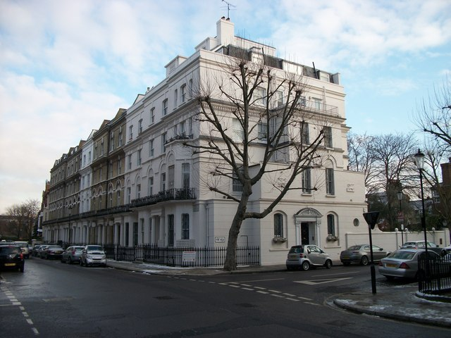 Grand House at junction of Elm Park Road and The Vale Chelsea